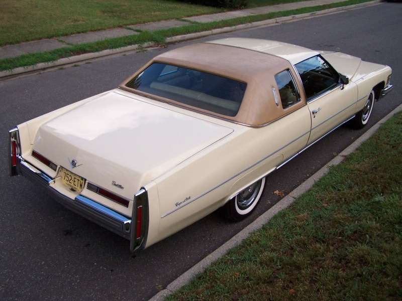 This is a picture of a vehicle (name of it is on the file name).